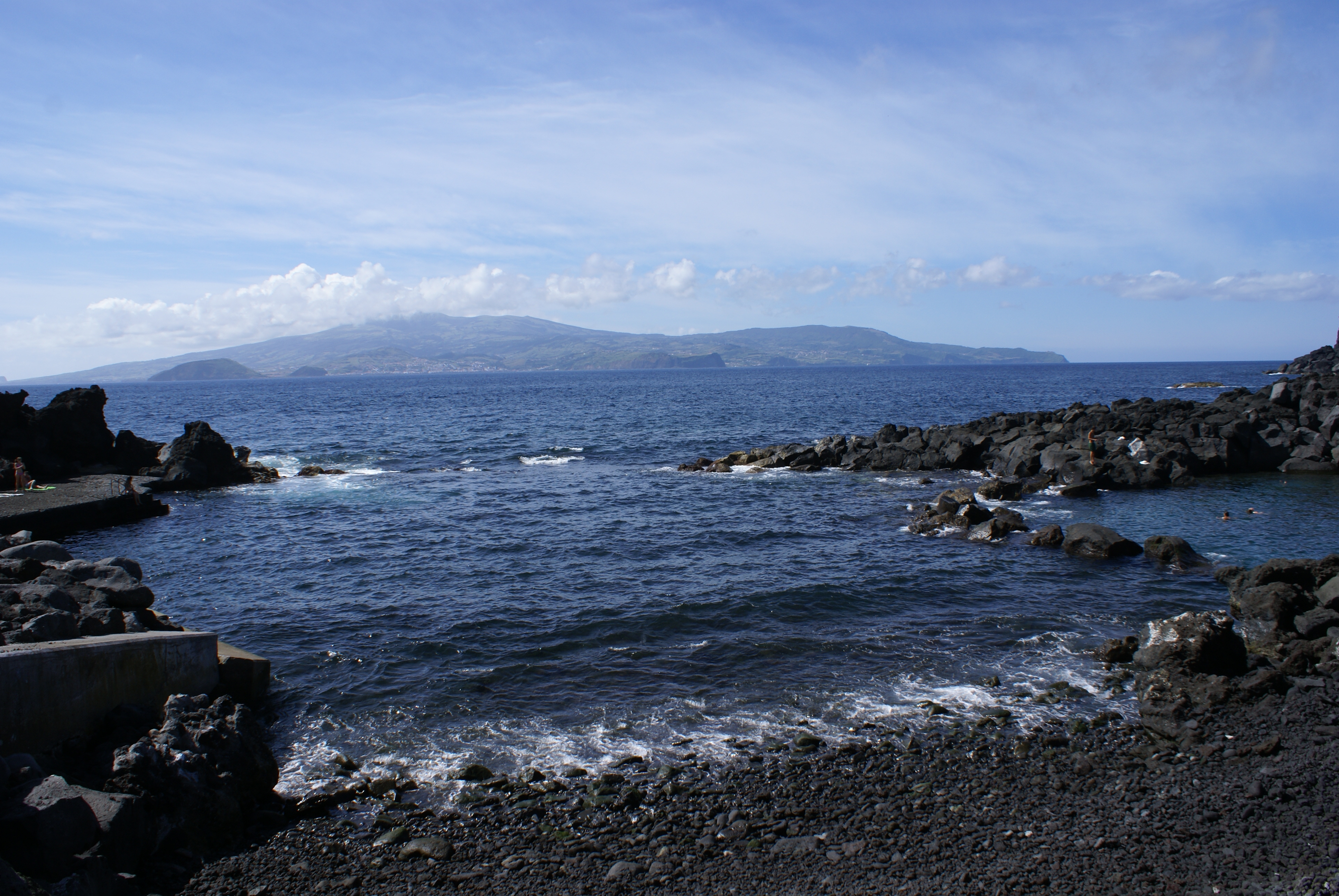 Baía do Pocinho, zona balnear, lugar do Monte, concelho da Madalena do Pico, ilha do Pico, Açores, Portugal